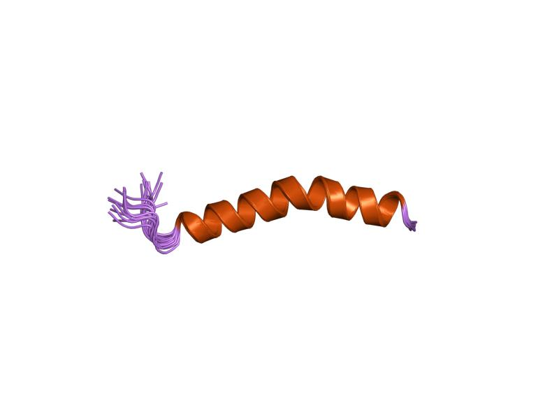 Cartoon representation of the molecular structure of protein registered with 1t5q code.